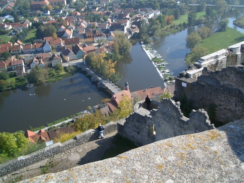 View of Kallmünz from the castle